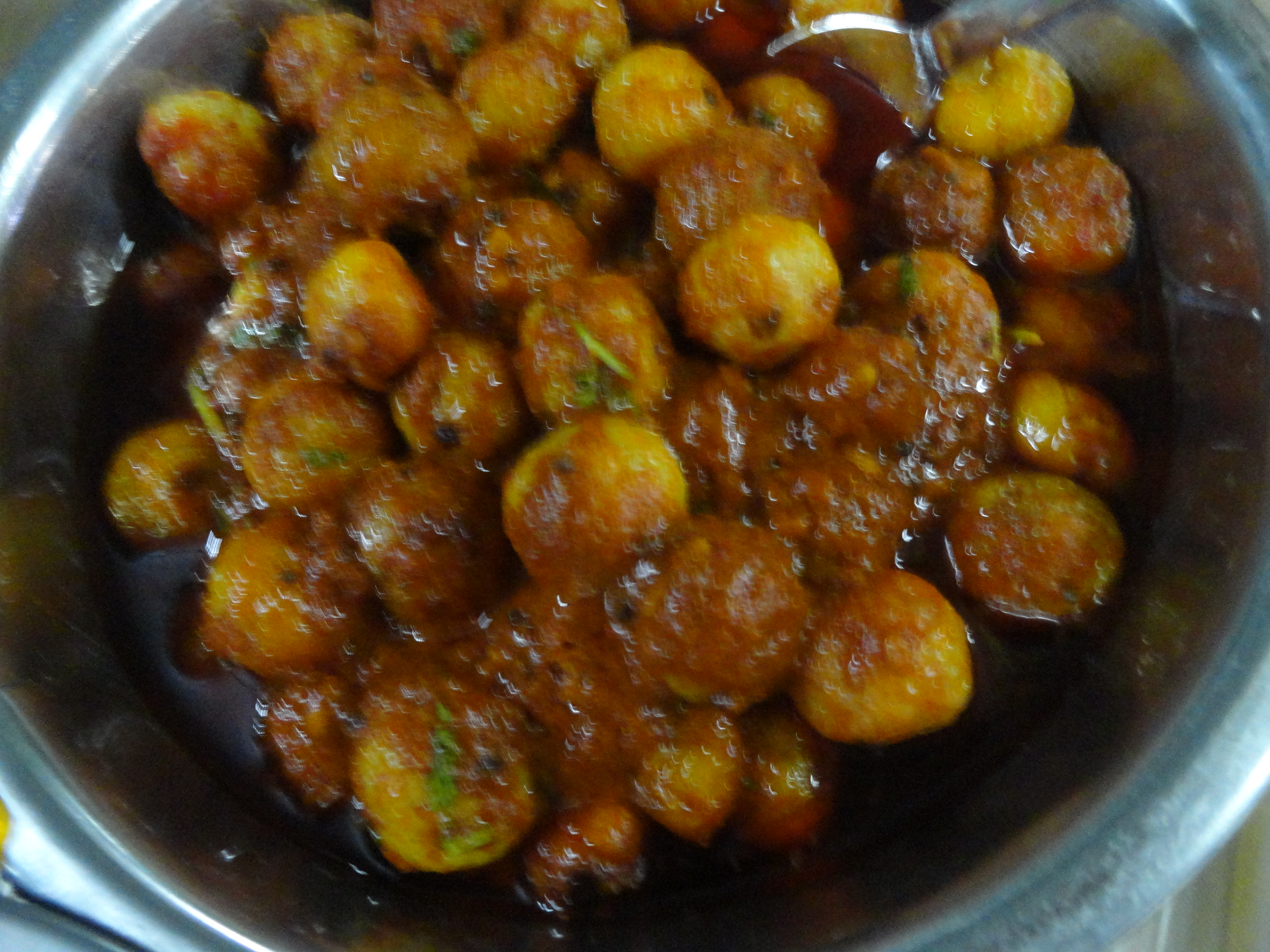 Usirikaaya paccadi